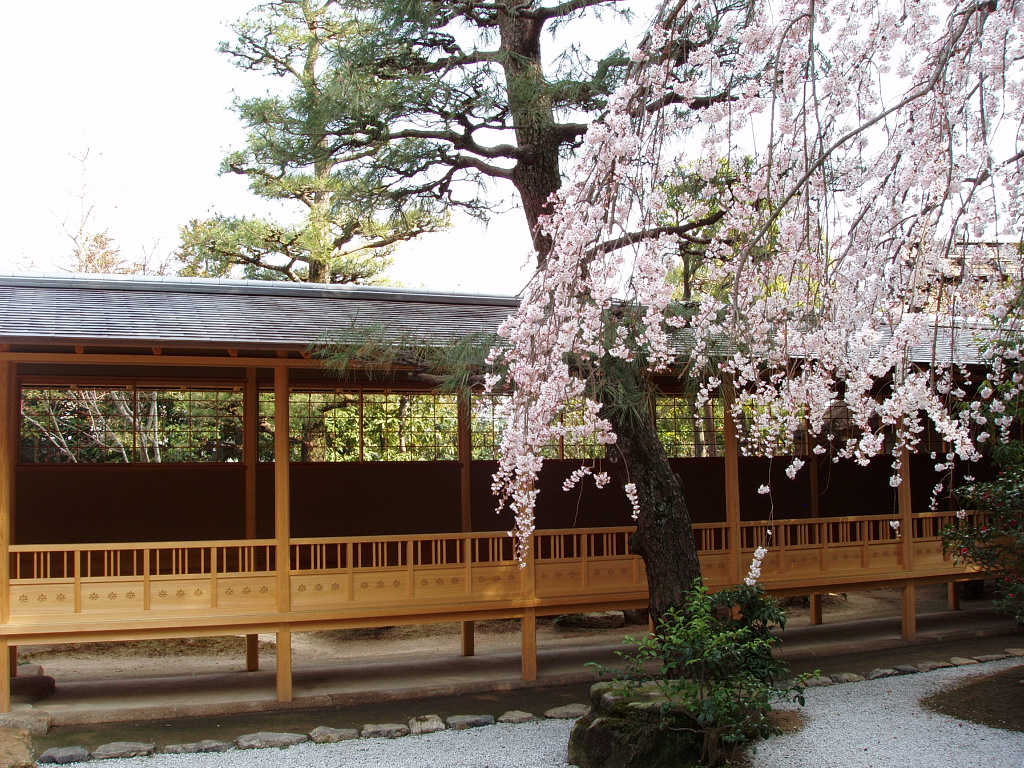 Garden of the Ueda Sôko Ryû in Hiroshima